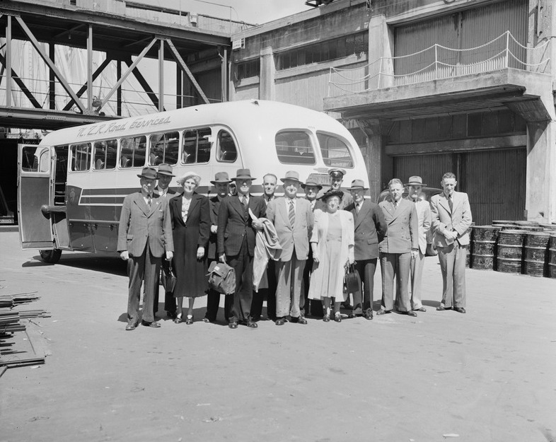 On February 17 1951 Australian and New Zealand Railways Commissioners were in Auckland. This image was taken by J.G. Duncan. Earlier in February the Commissioners had a conference in Wellington from 5-10 February. This was followed by a quick tour of the North Island mostly transported via New Zealand Railways Road servicesArchives New Zealand Reference: AAVK W3493 6390 B1092